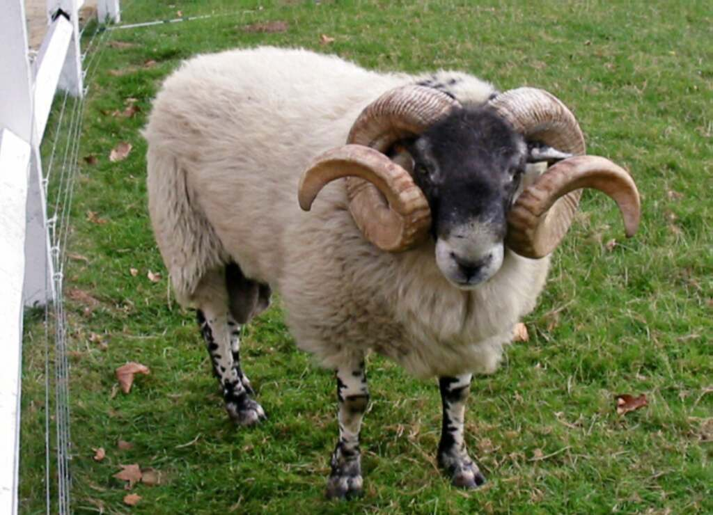 scottish Black face ; photo JH Mora oct. 2004 ; licence GFDL